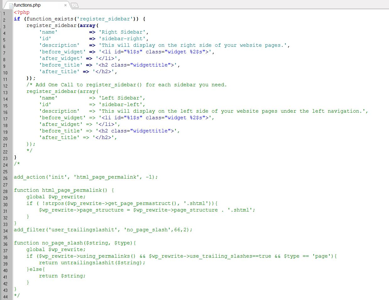 This is an example of custom php code on a computer screen.